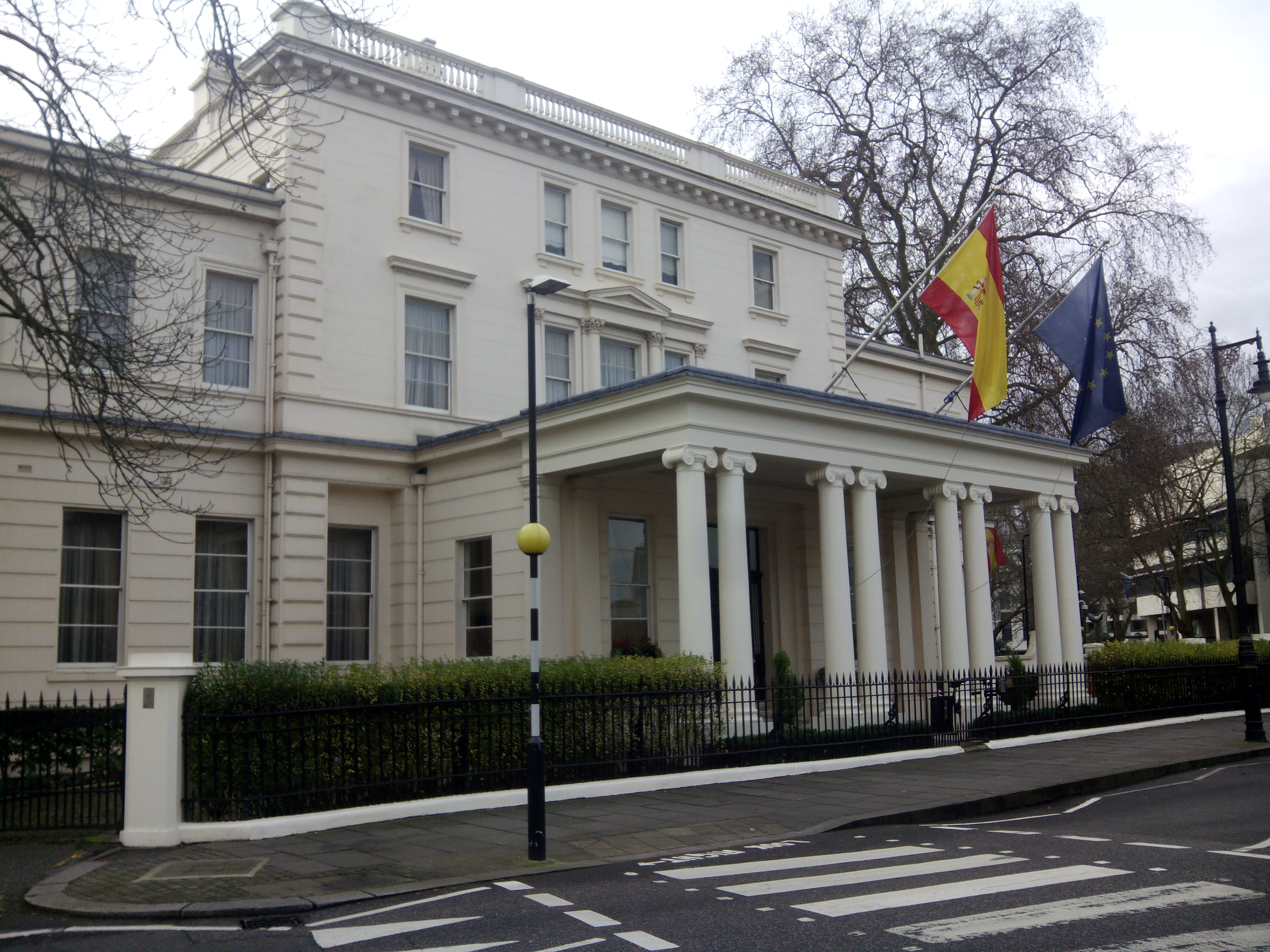 Embassy of Spain in London.